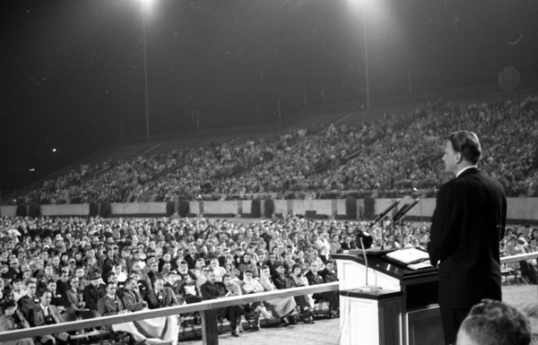 Persistent URL: Local call number: TD01114G Title: Evangelist Billy Graham speaking at Doak Campbell Stadium in Tallahassee, Florida Date: February 11, 1961 Physical descrip: 1 photonegative - b&w - 35 mm. Series Title: Tallahassee Democrat Collection Repository: State Library and Archives of Florida 500 S. Bronough St., Tallahassee, FL, 32399-0250 USA, Contact: 850.245.6700